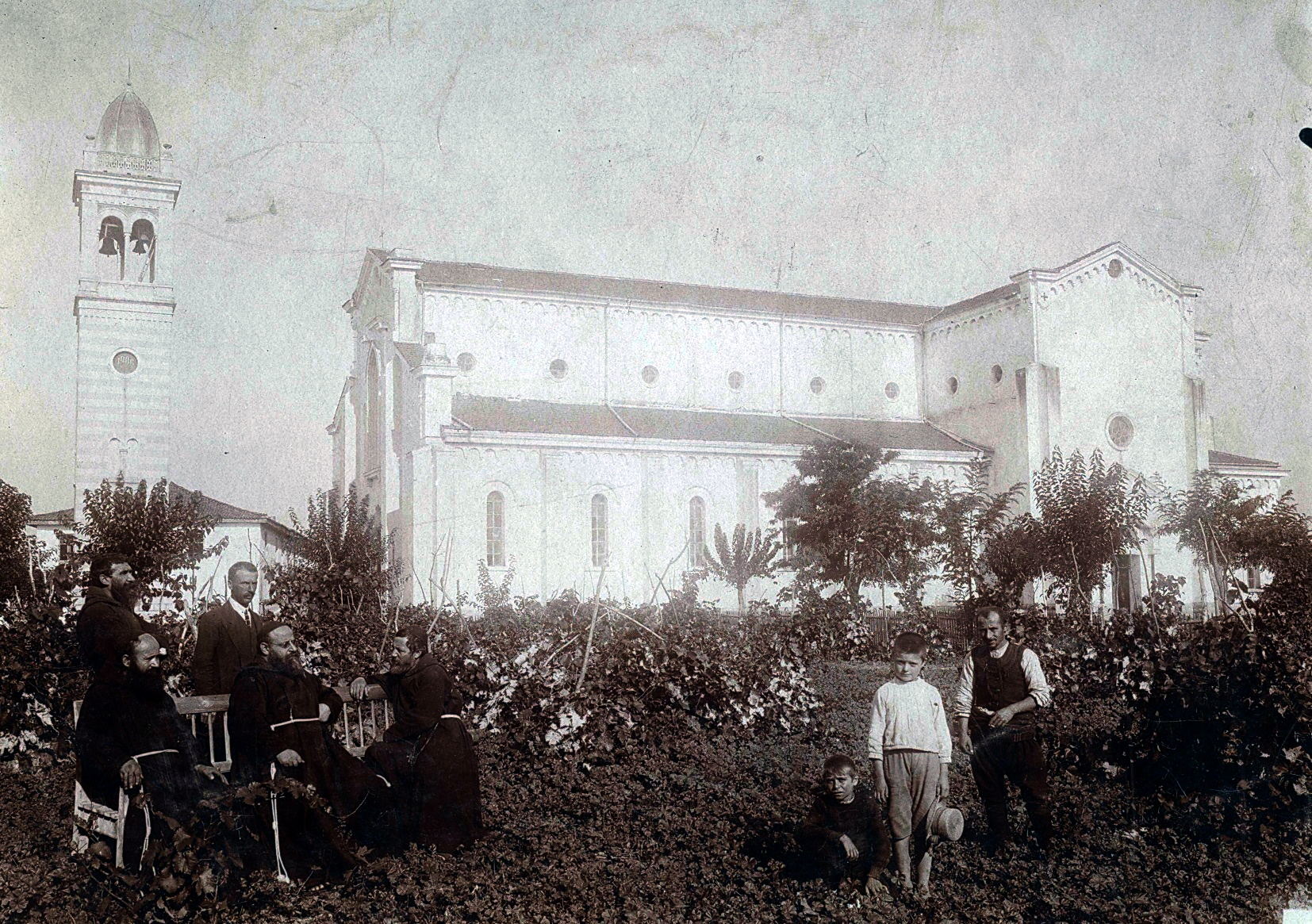 Church of the Sacred Heart of Jesus in Rakovski 1922-1924